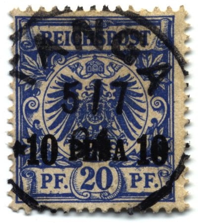 Stamp German East Africa 1893 10p. German East Africa 10-para overprint stamp of 1893